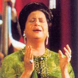 A photo for Umm Kulthum singing on a stage.